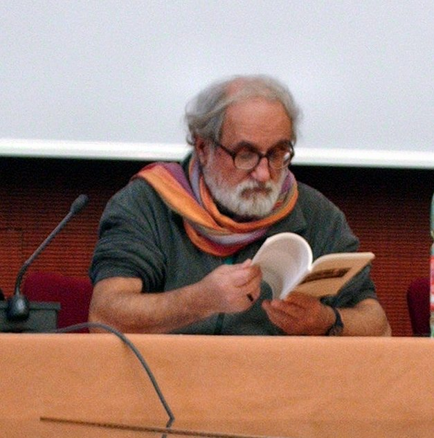 Padre Alex Zanotelli attending a meeting during "Galassia Gutenberg" (a book fair)